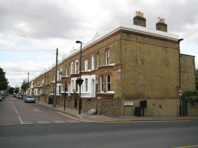 Herne Hill: Mayall Road, SE24 This is late Victorian terraced housing, typical of many such blocks in South London. The terrace is shown on the 1896 Ordnance Survey map but not on the edition of 1880, which gives a broad clue to the date that it was constructed. The street in front is Shakespeare Road.